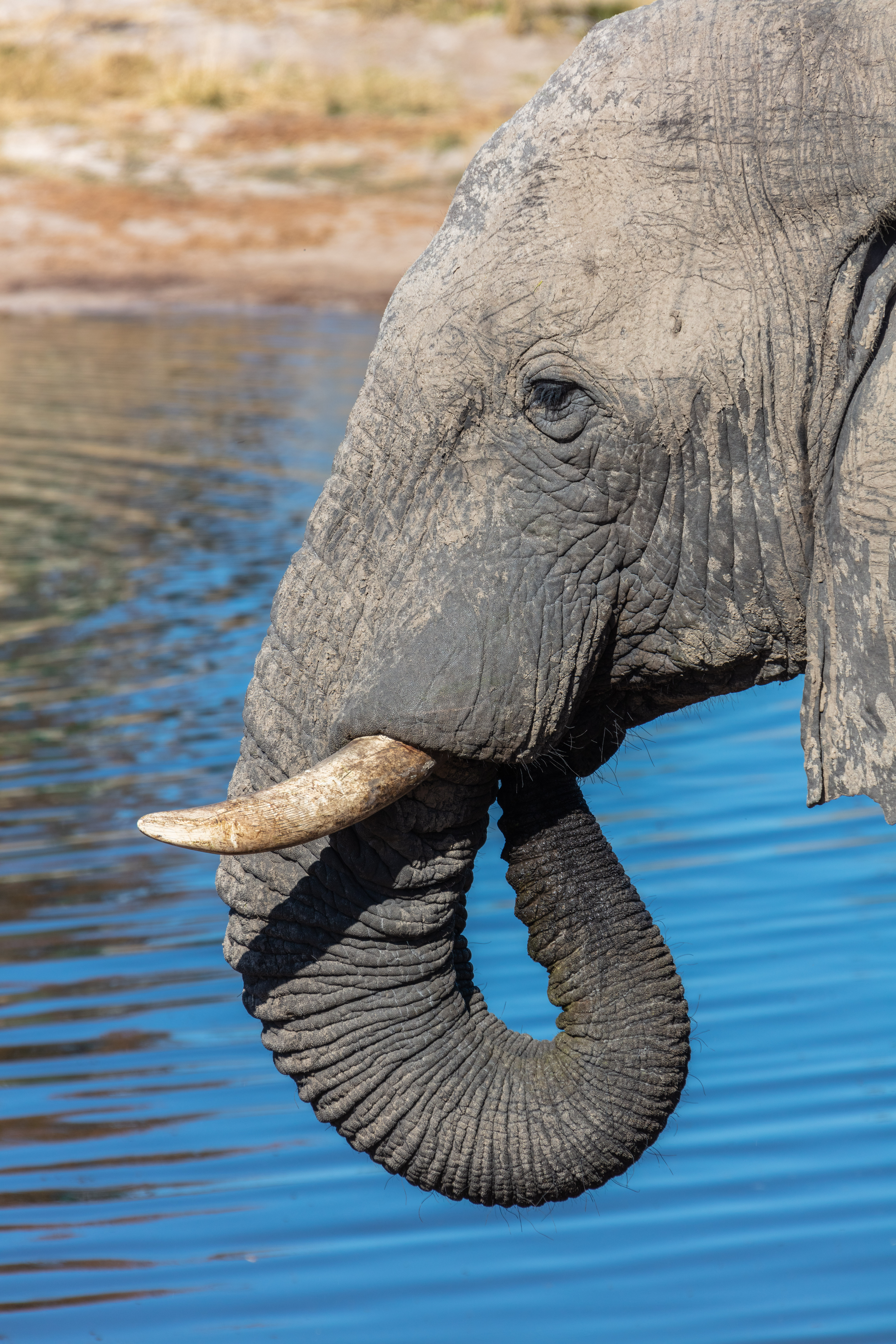 African bush elephant (Loxodonta africana), Elephant Sands, Botsuana